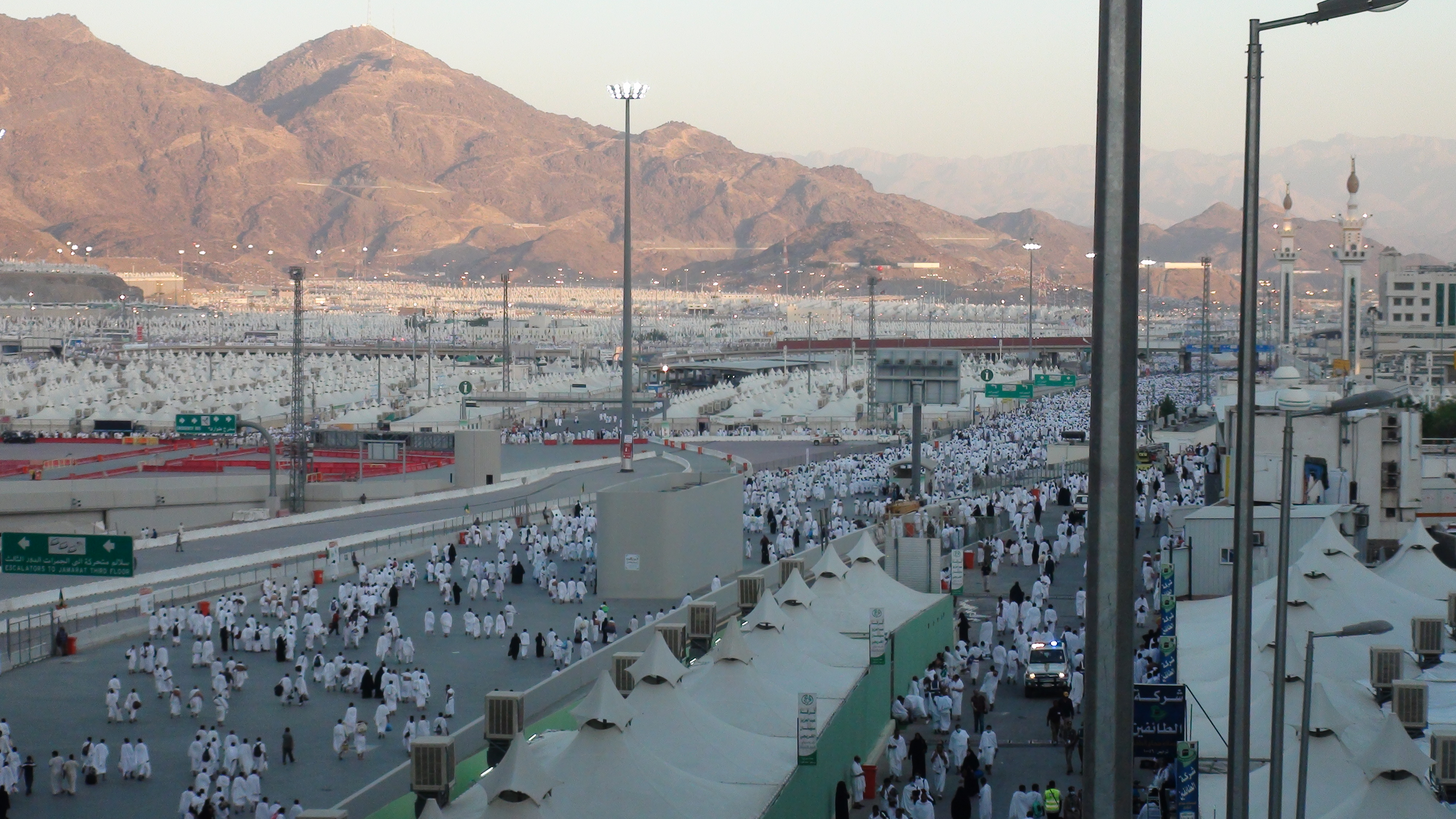 Mina area